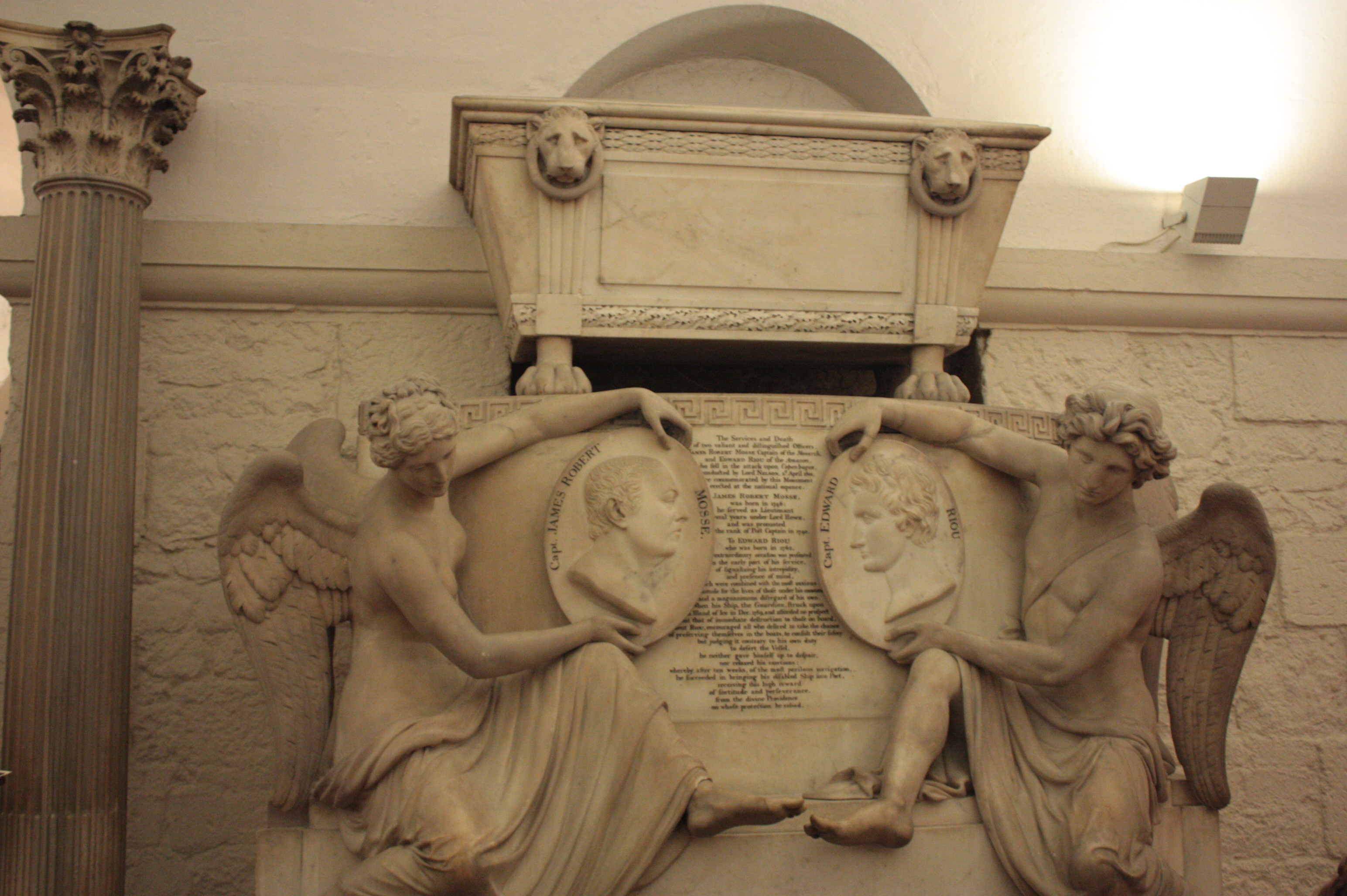 The monument to Captains Mosse and Riou, St Pauls Cathedral